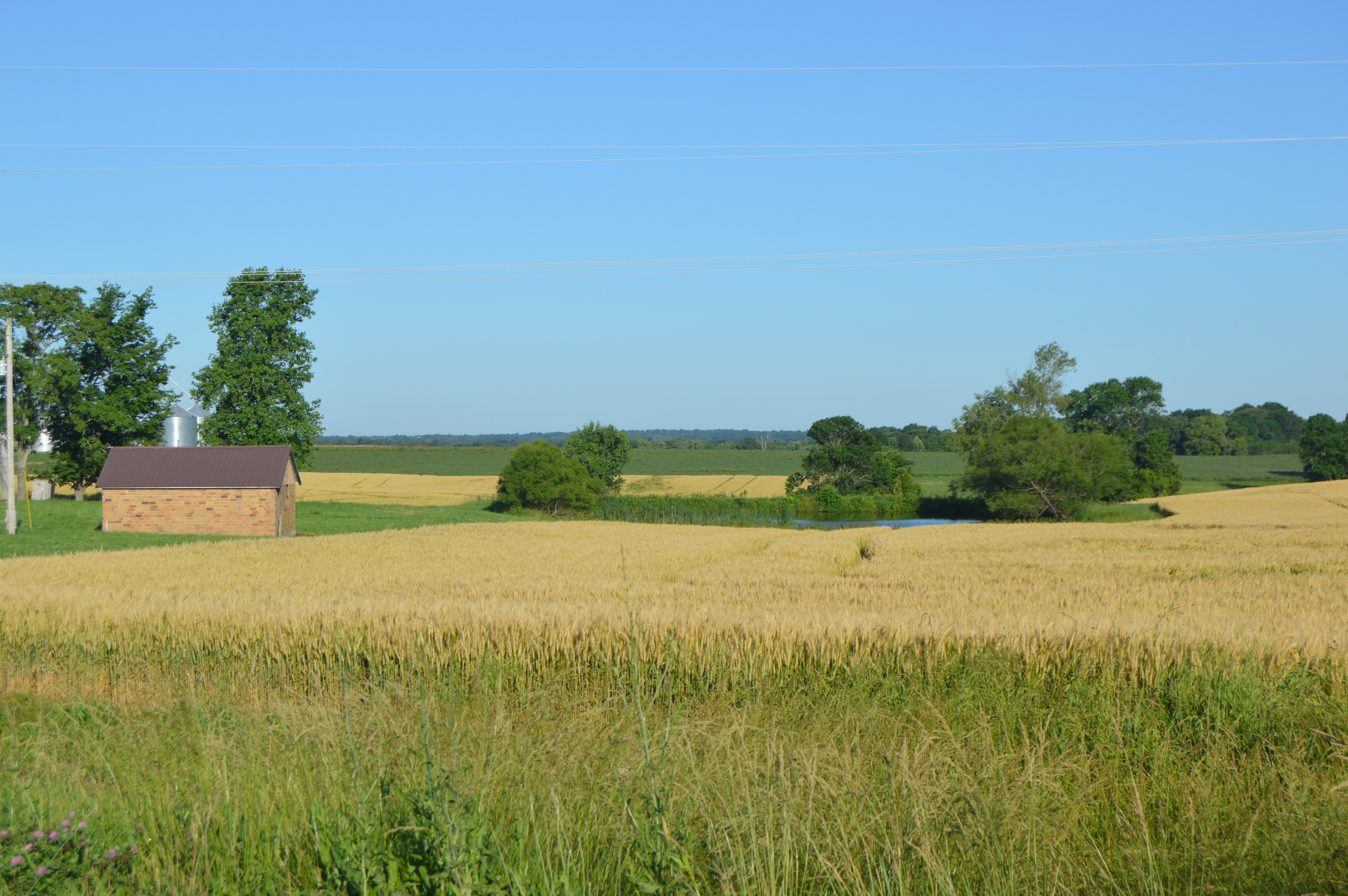 Fields on the western side of Illinois Route 150 between Bremen and Steeleville in northeastern Bremen Precinct, Randolph County, Illinois, United States.